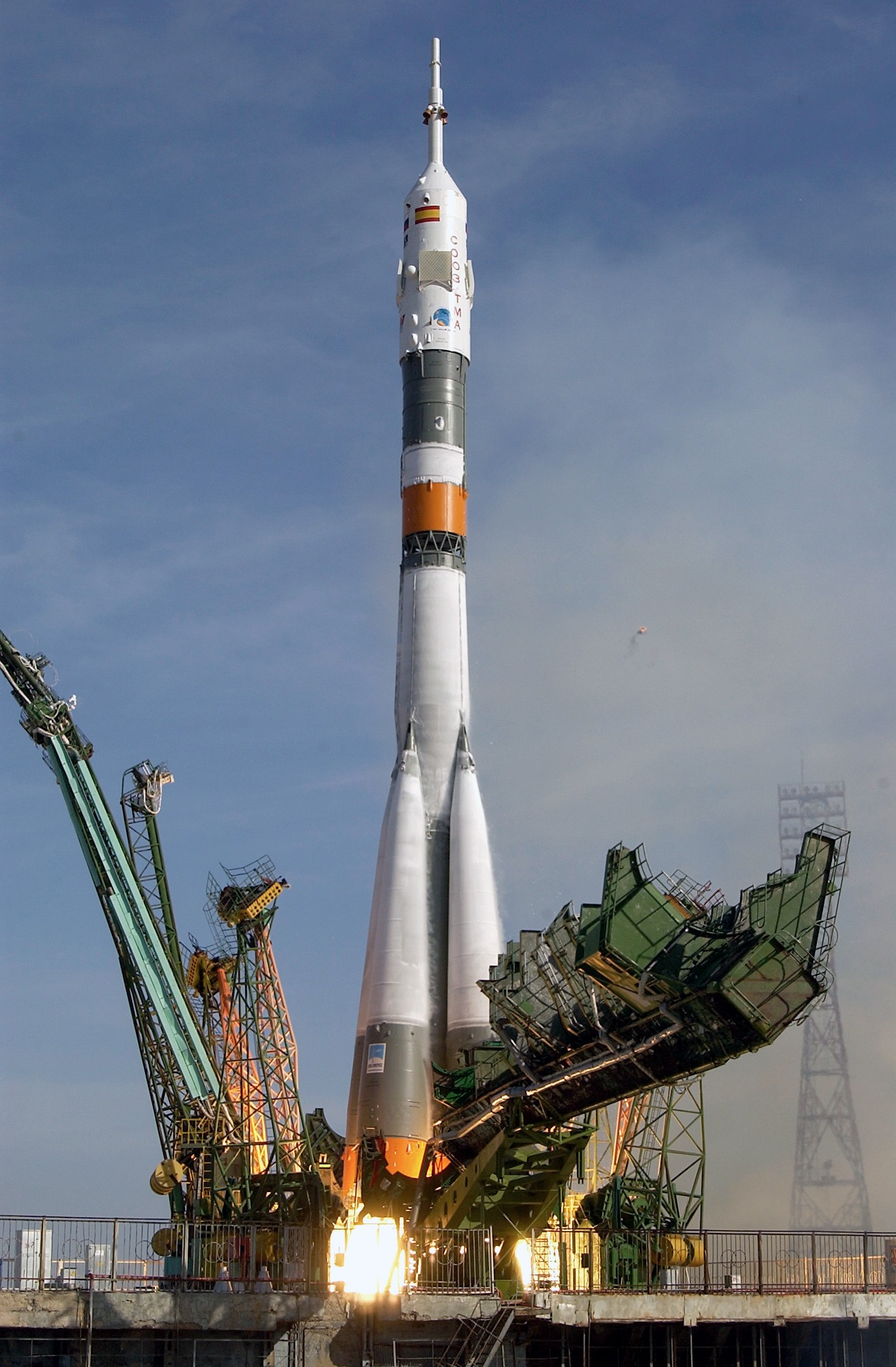 The Soyuz TMA-3 vehicle launches from the Baikonur Cosmodrome in Kazakhstan October 18, 2003, carrying astronaut C. Michael Foale, Expedition 8 mission commander and NASA ISS science officer; cosmonaut Alexander Y. Kaleri, Soyuz commander and flight engineer; and European Space Agency (ESA) astronaut Pedro Duque of Spain to the International Space Station (ISS). The trio will arrive at the ISS October 20, as Foale and Kaleri take over command of Station operations for the next 6 1/2 months. Duque will return to Earth October 28 with cosmonaut Yuri I. Malenchenko, Expedition 7 mission commander, and astronaut Edward T. Lu, NASA ISS science officer and flight engineer, in another Soyuz capsule already docked to the ISS. Kaleri and Malenchenko represent Rosaviakosmos.